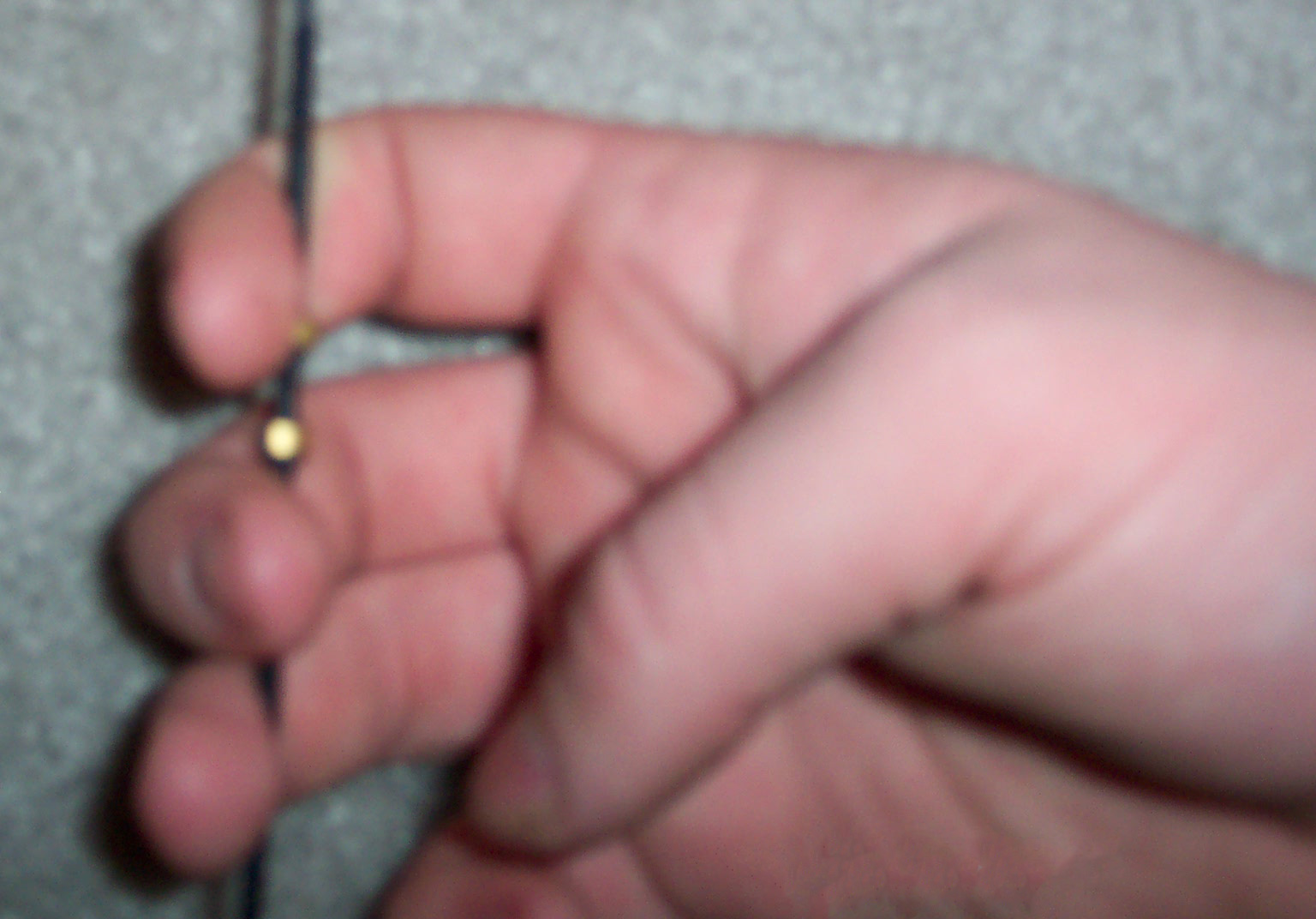 A Mediterranean Draw without a finger tab or shooting glove.